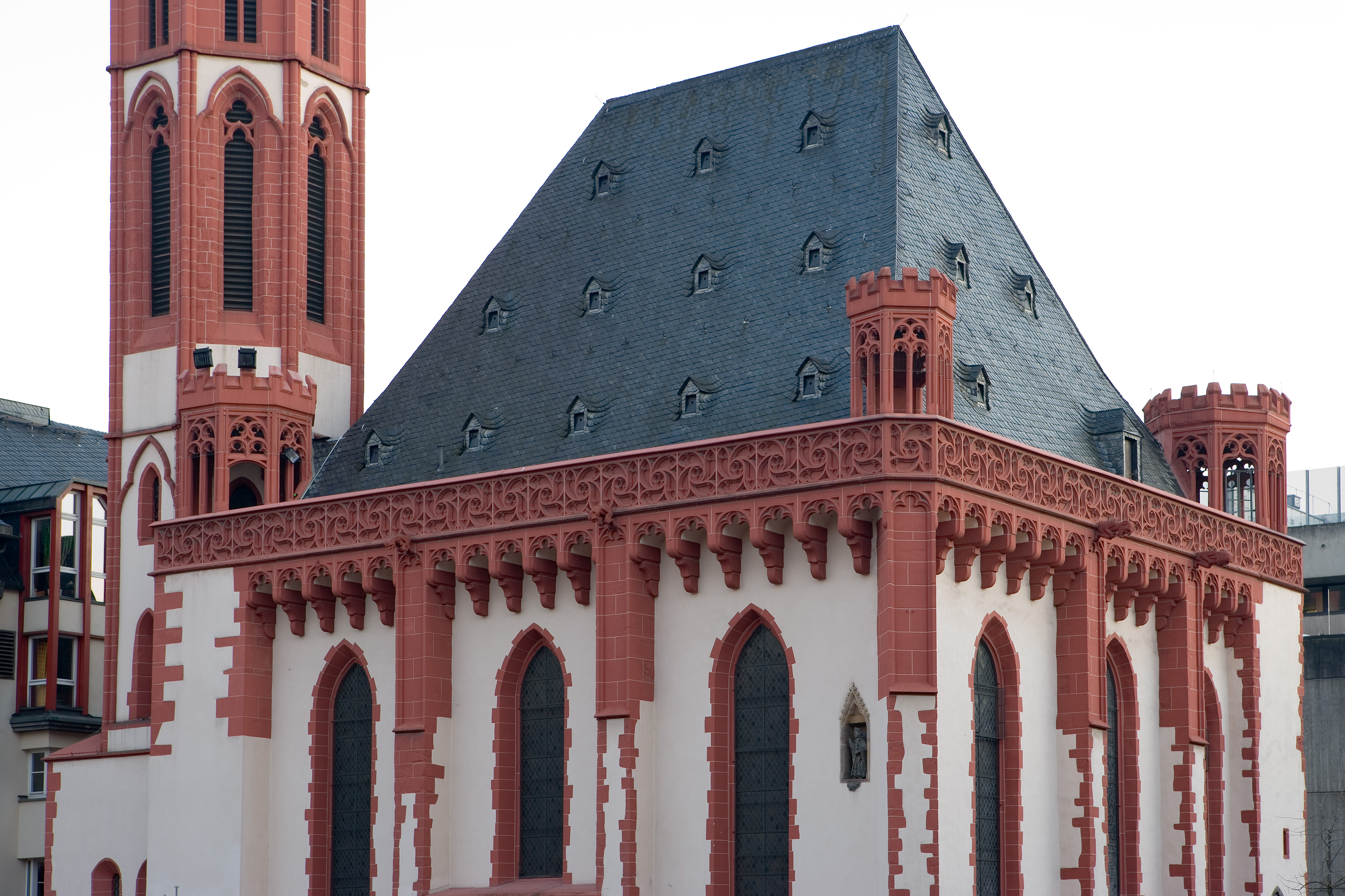 Frankfurt on the Main: Alte Nikolaikirche (Old Saint Nicholas Church), detail of the late-gothic roof attic